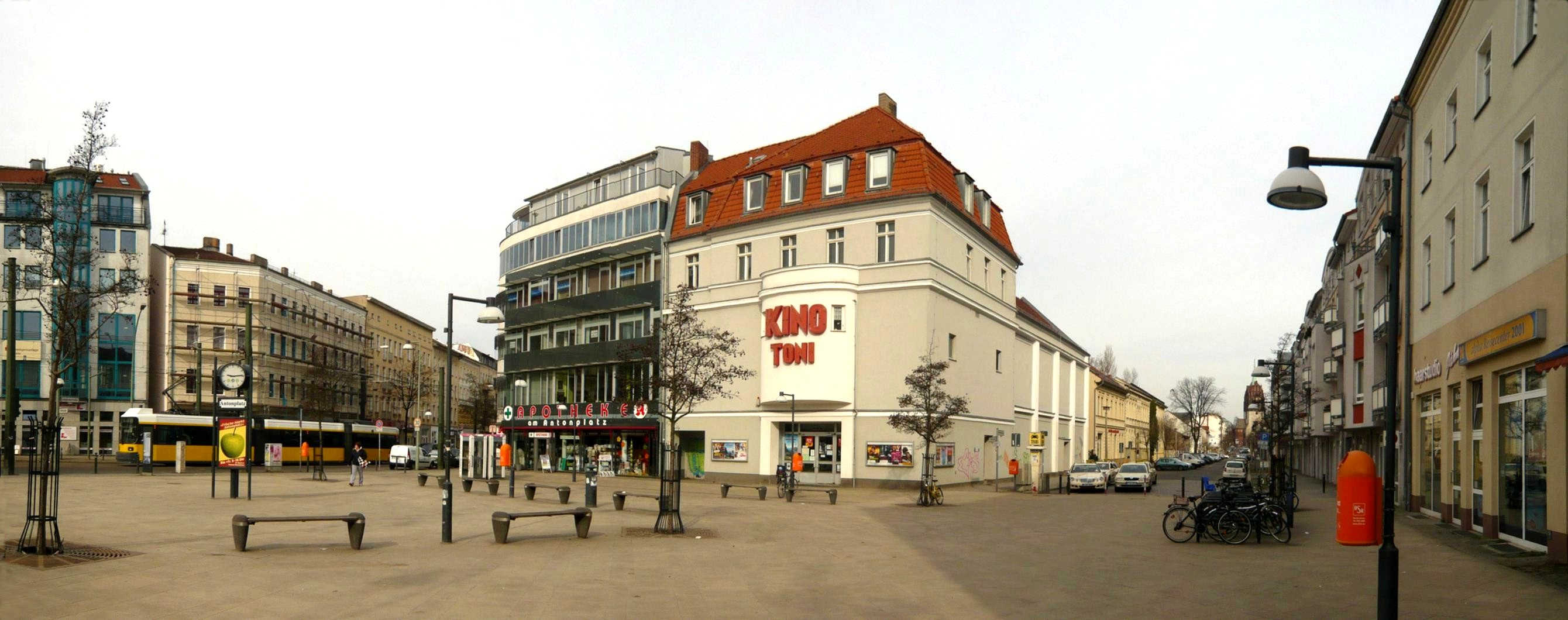 Square Antonplatz in Berlin-Weissensee, Germany